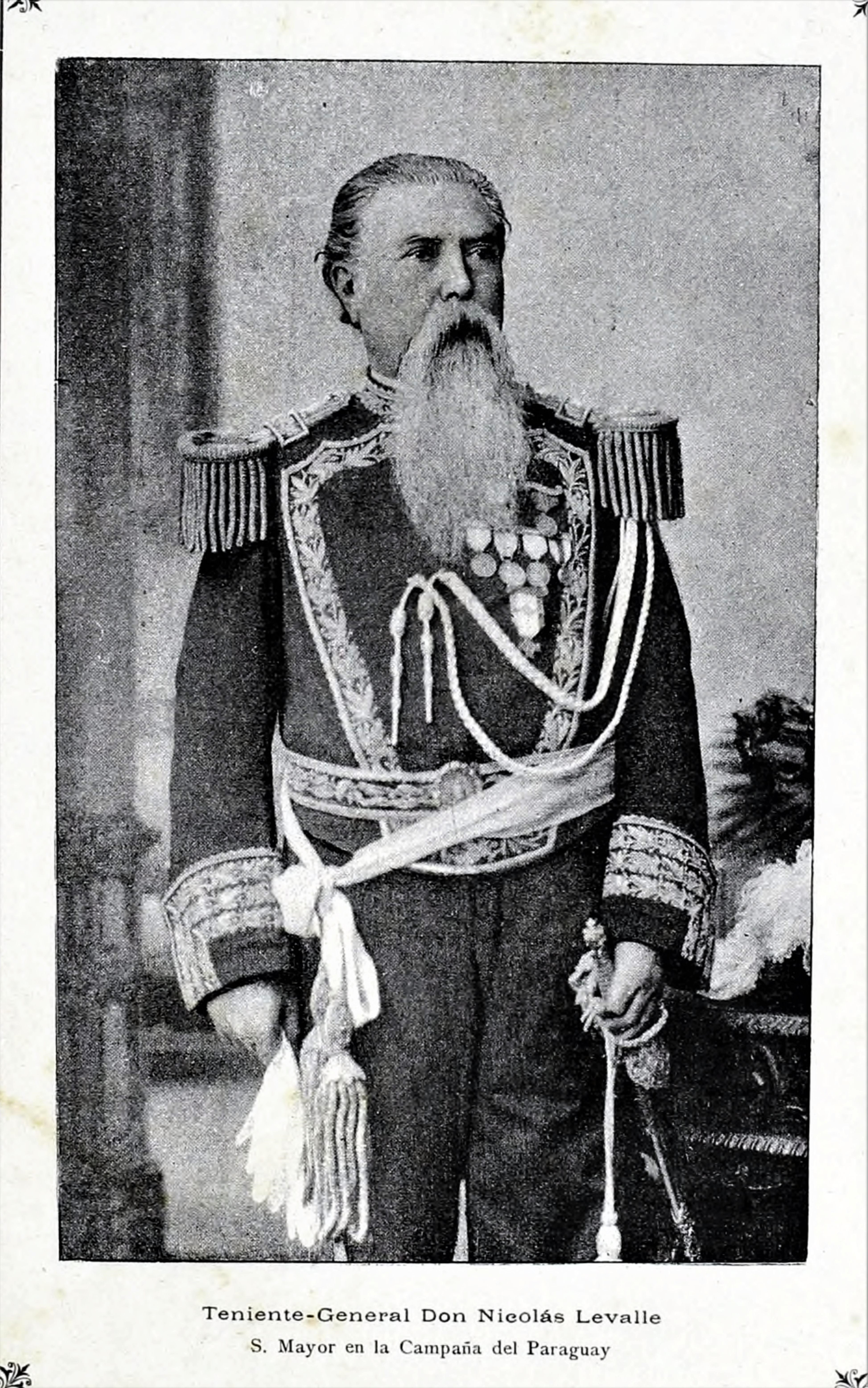 General NIicolás Levalle (1840-1902).